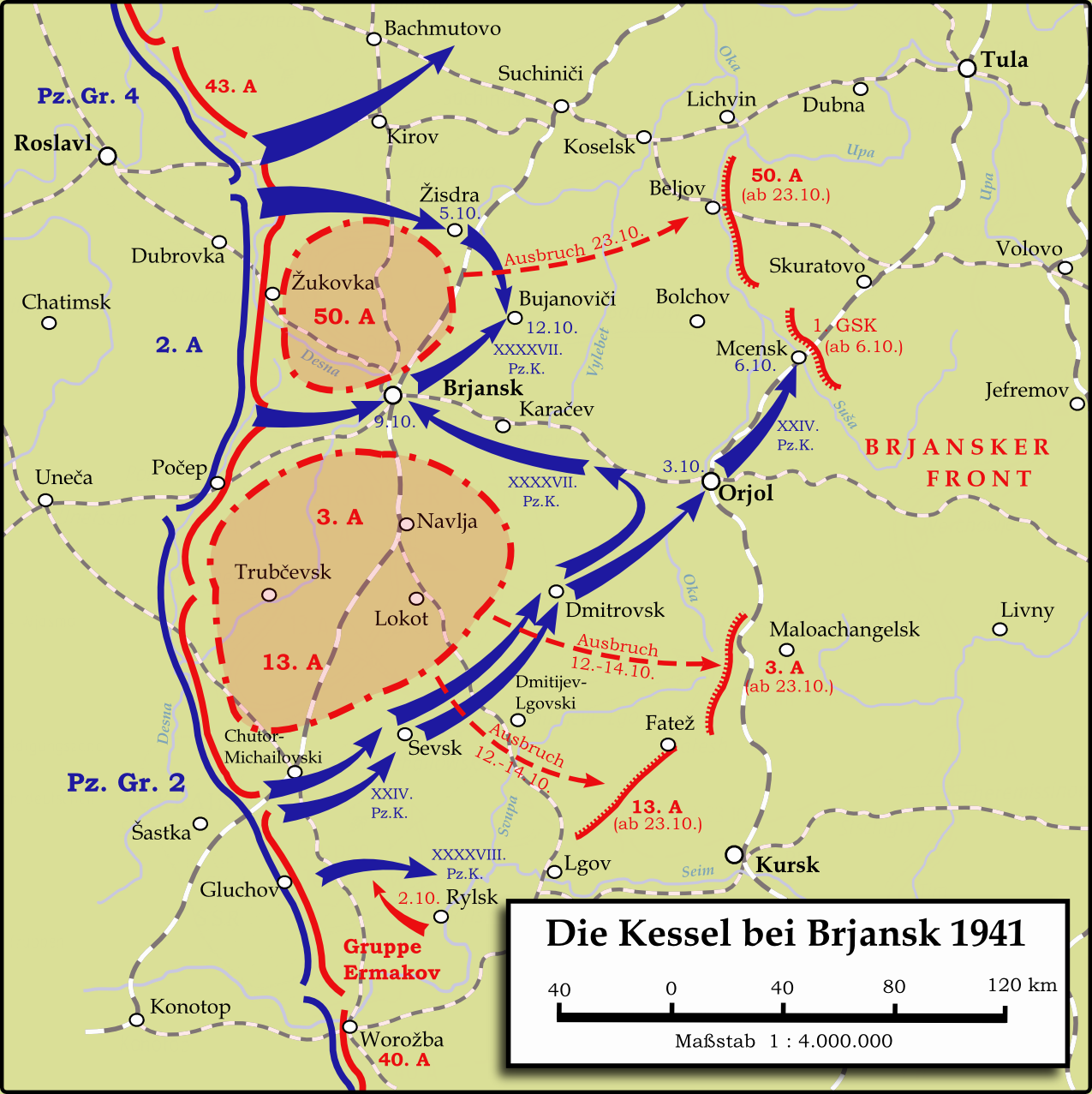 Map showing the Battle near Bryansk (September 30th — October 23rd 1941) during the Second World War (1939—1945) at the Eastern Front. The map is created by Inkscape and is based on the Map 30 in the attachement of the book P.N. Pospelow (Hrsg.): Geschichte des Großen Vaterländischen Krieges der Sowjetunion, Bd.2, Berlin (Ost) 1963. The troop movements have been corrected.